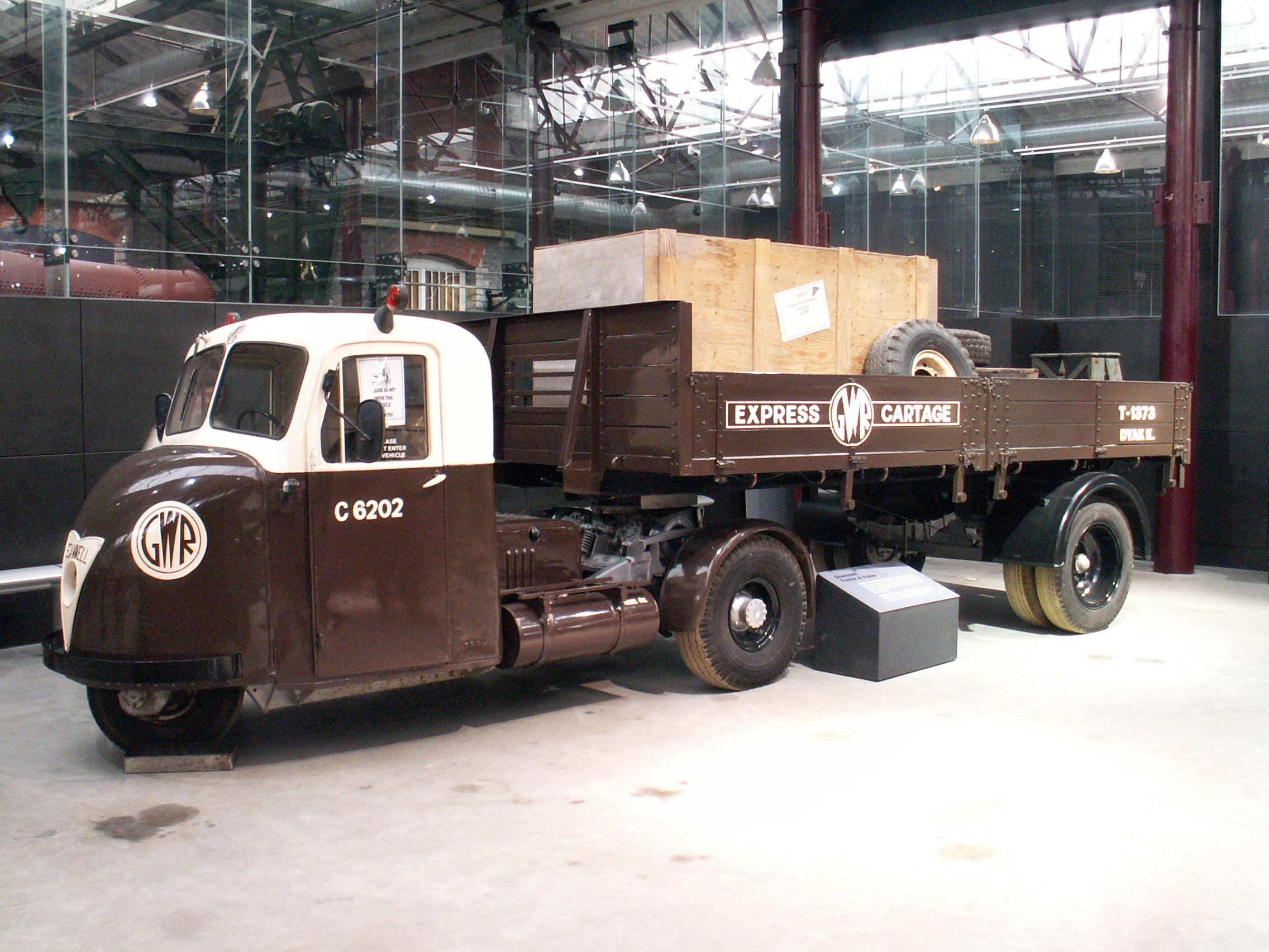 Scammell Scarab truck in the STEAM-Museum, Swindon, GBHISTORICAL NOTE: It is a correct GWR livery (I would guess), but on the wrong vehicle.The GWR did use Mechanical Horses, the predecessor to these (with much squarer, wooden cab). This model, the Scarab, did not appear until 1948, after the GWR had been nationalised, and hence the GWR could not possibly have used them.